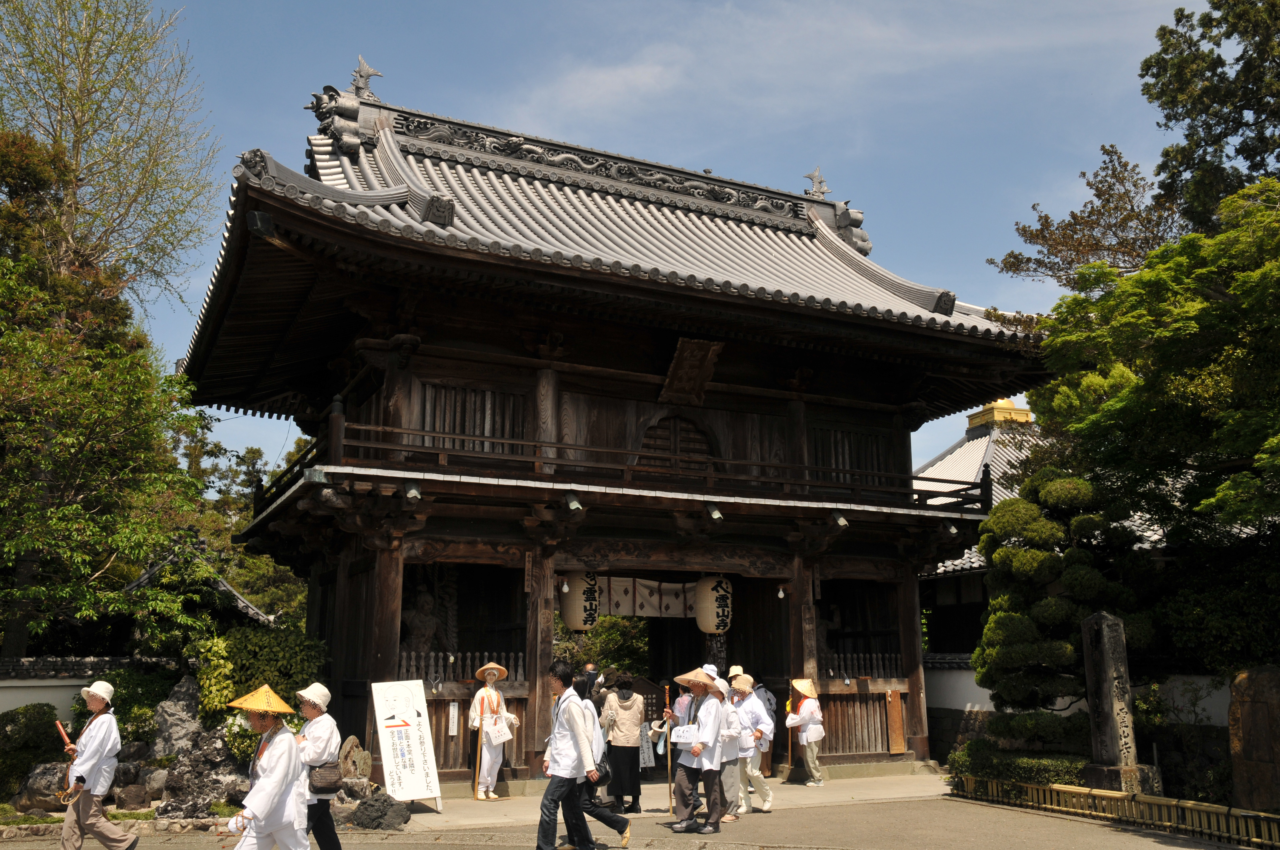 Main gate, Ryozen-ji